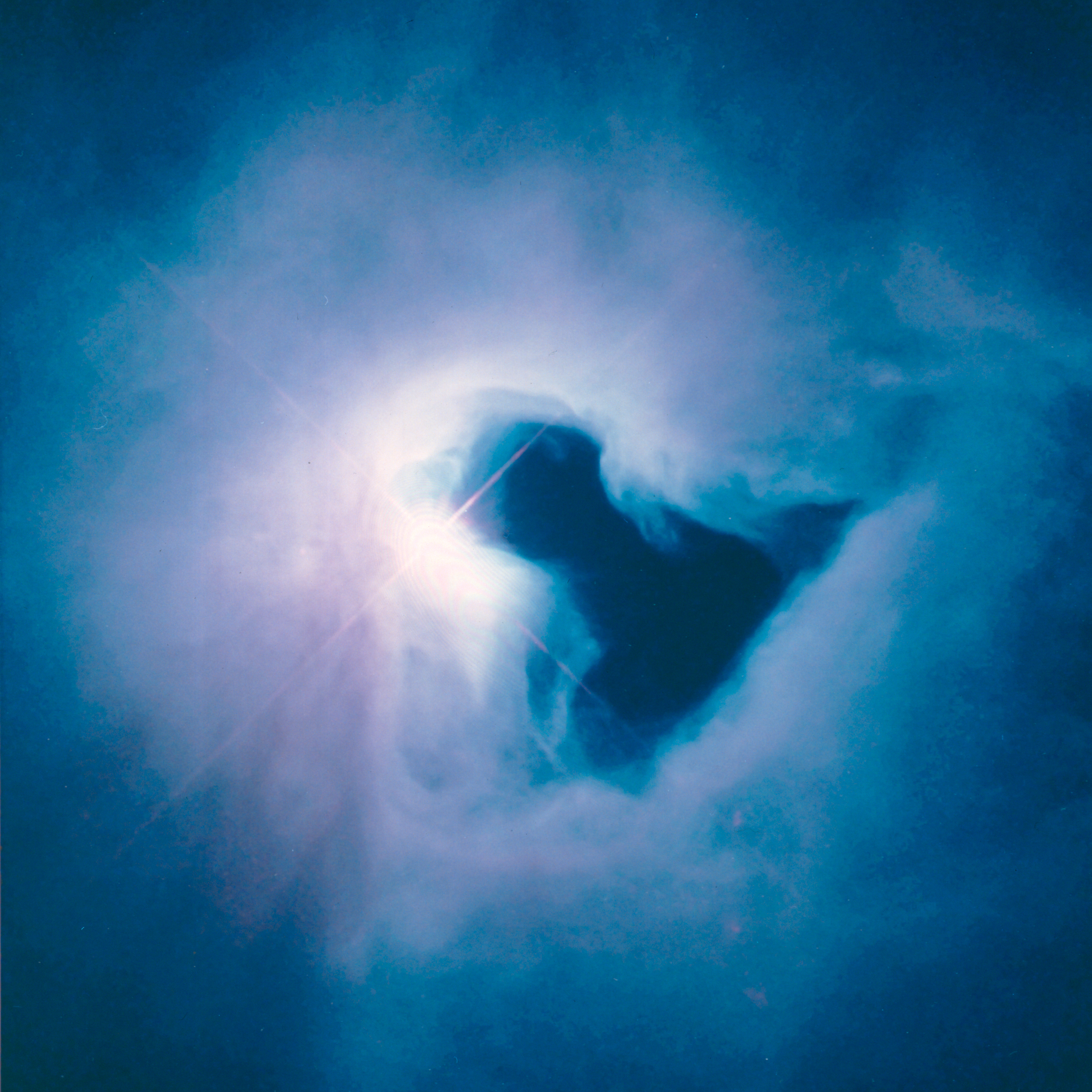 Just weeks after NASA astronauts repaired the Hubble Space Telescope in December 1999, the Hubble Heritage Project snapped this picture of NGC 1999, a nebula in the constellation Orion. The Heritage astronomers, in collaboration with scientists in Texas and Ireland, used Hubble's Wide Field and Planetary Camera 2 (WFPC2) to obtain the color image. NGC 1999 is an example of a reflection nebula. Like fog around a street lamp, a reflection nebula shines only because the light from an imbedded source illuminates its dust; the nebula does not emit any visible light of its own. NGC 1999 lies close to the famous Orion Nebula, about 1,500 light-years from Earth, in a region of our Milky Way galaxy where new stars are being formed actively. NGC 1999 was discovered some two centuries ago by Sir William Herschel and his sister Caroline, and was cataloged later in the 19th century as object 1999 in the New General Catalogue. This data was collected in January 2000 by the Hubble Heritage Team with the collaboration of star-formation experts C. Robert O'Dell (Rice University), Thomas P. Ray (Dublin Institute for Advanced Study), and David Corcoran (University of Limerick).